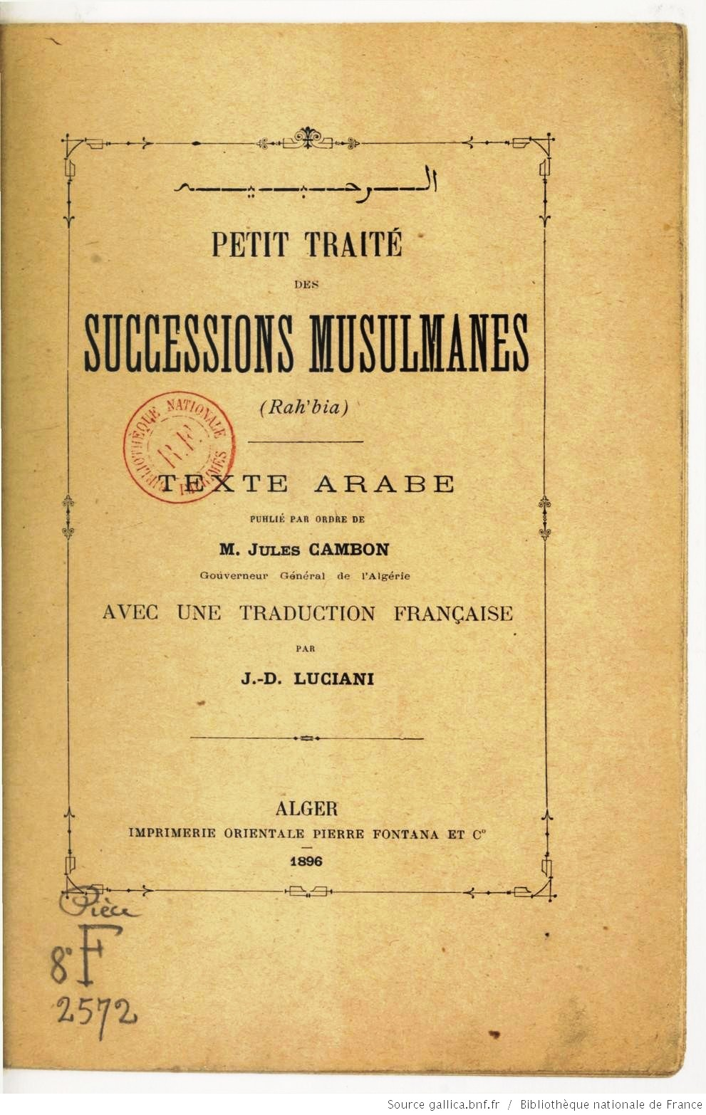 This page is scanned from an old French translation by "Jean-Dominique Luciani" in 1896 of (Al-Rahabia الرحبية), an Arabic 12th century book about "Muslims Successions" المواريث